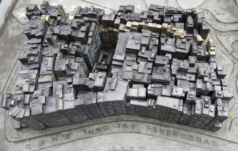 This is the model of Kowloon Walled City located at the entrance of Kowloon Walled City Park that stands on the ground of the original walled city. This model represents the city's final structural configuration; the lateral bronze band on the model near the top of the photo is the route a group of Japanese urban explorers took navigating the city at the time of its evacuation and just prior to its demolition.